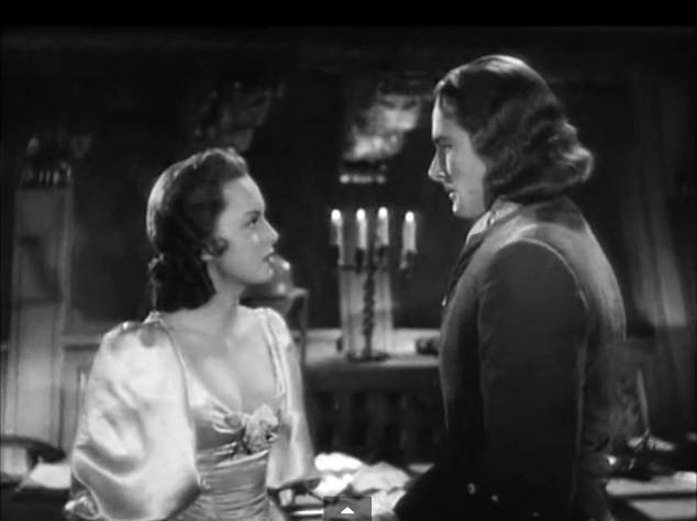 Olivia de Havilland and Errol Flynn in the film trailer for Captain Blood, 1935